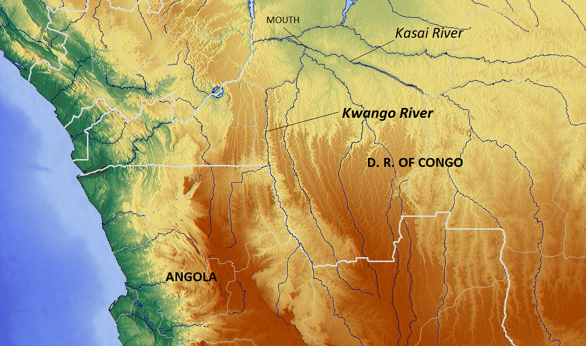 Relief map of Kwango River